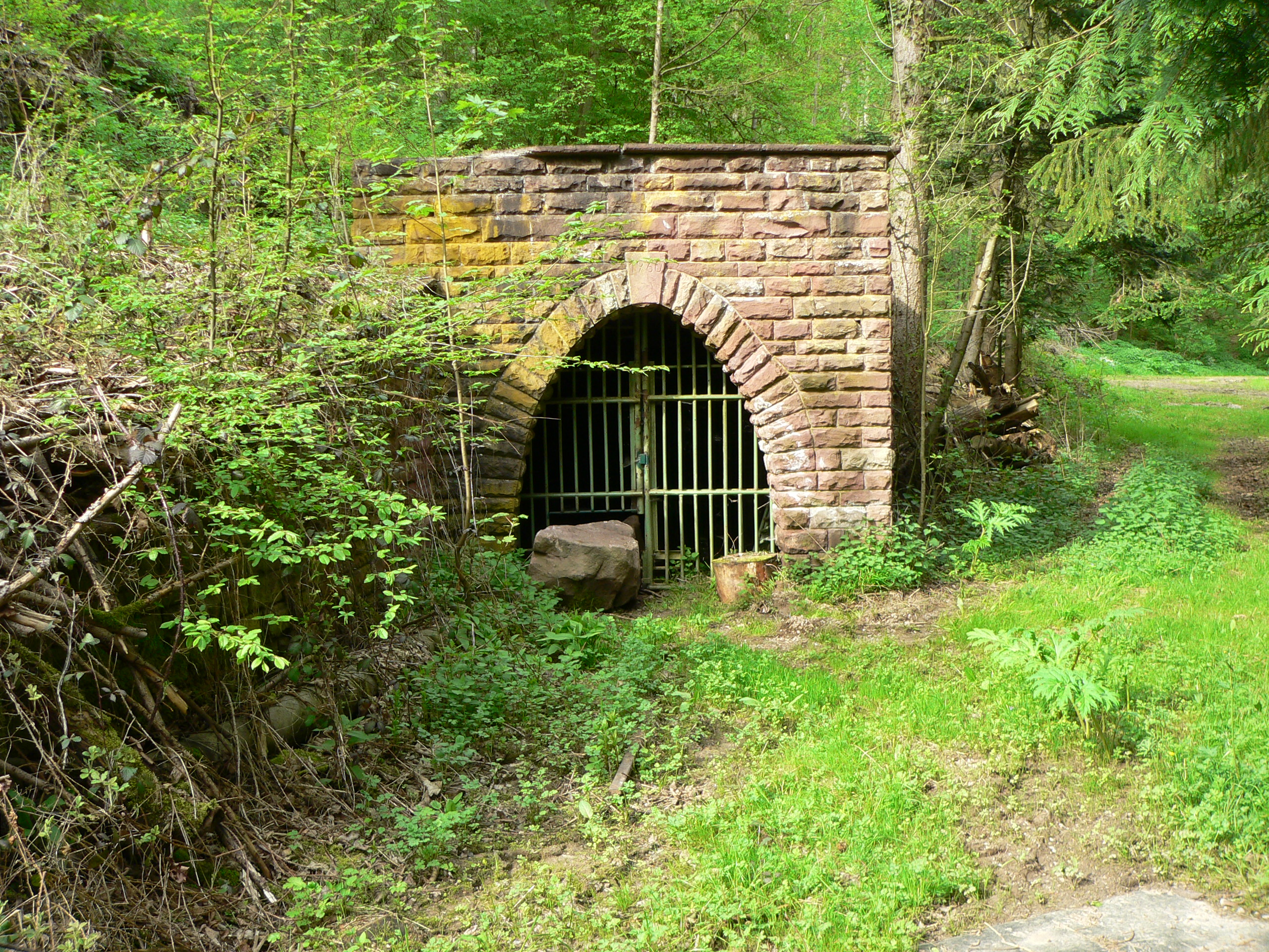 Fluorspar and baryte mine Käfersteige near Pforzheim Germany. Adit from 1960.